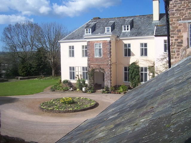 Tiverton : Inside Tiverton Castle